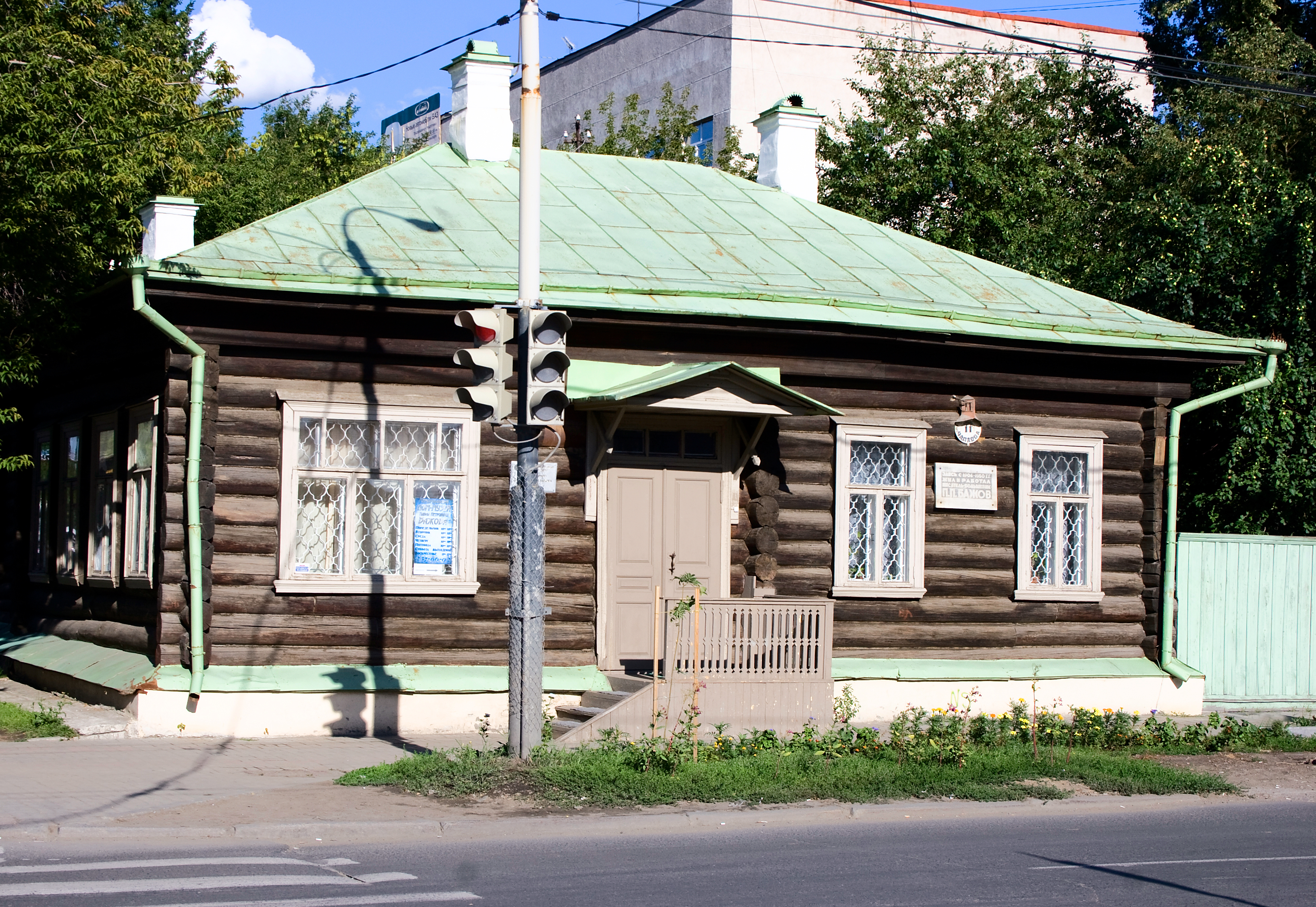 Дом Бажова